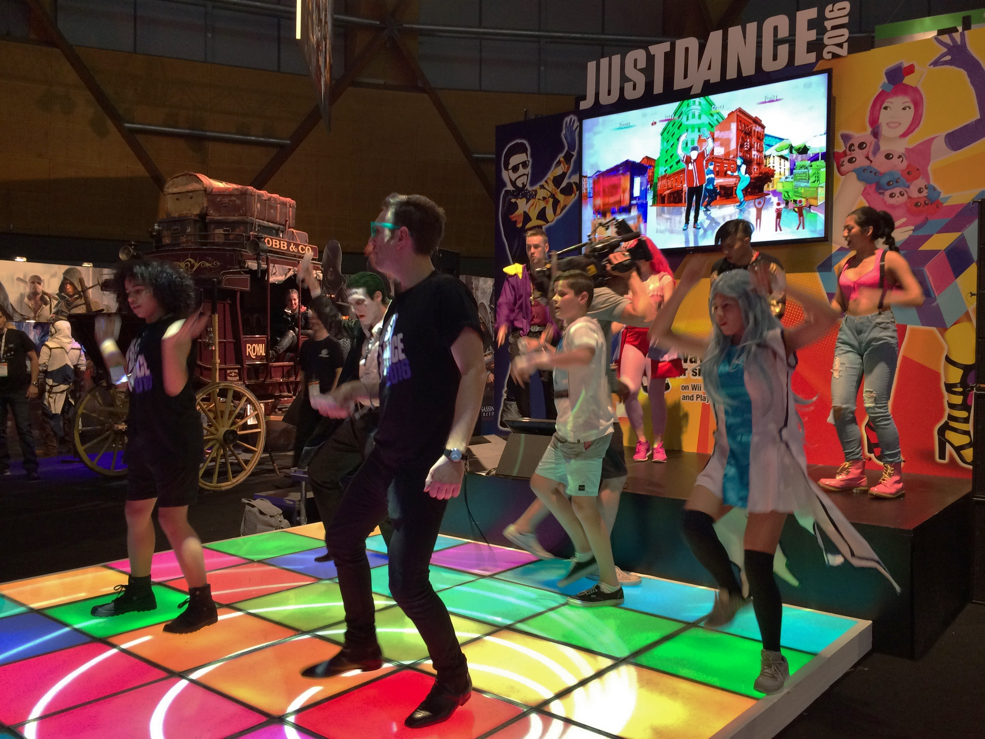 Just Dance 2016 was publicly displayed at the EB Games Expo 2015, drawing large crowds of on-lookers, as per usual with Just Dance installments at the EB Games Expo.